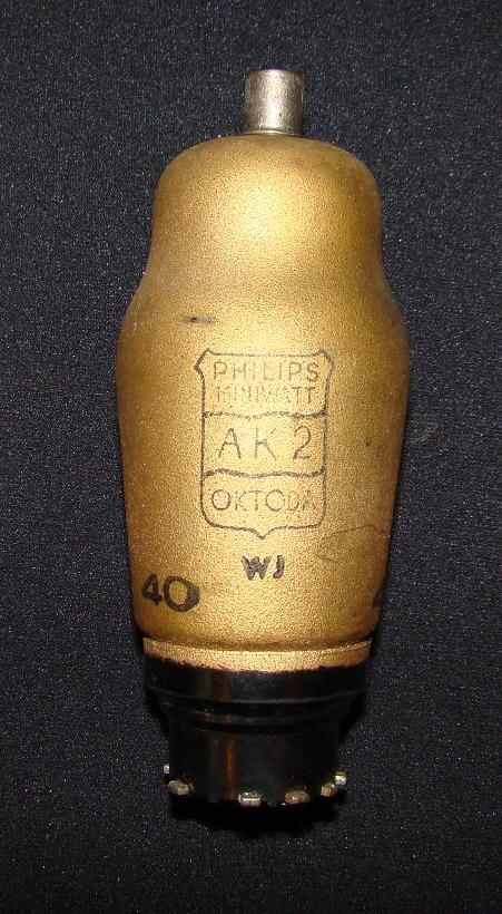 Octode AK2.